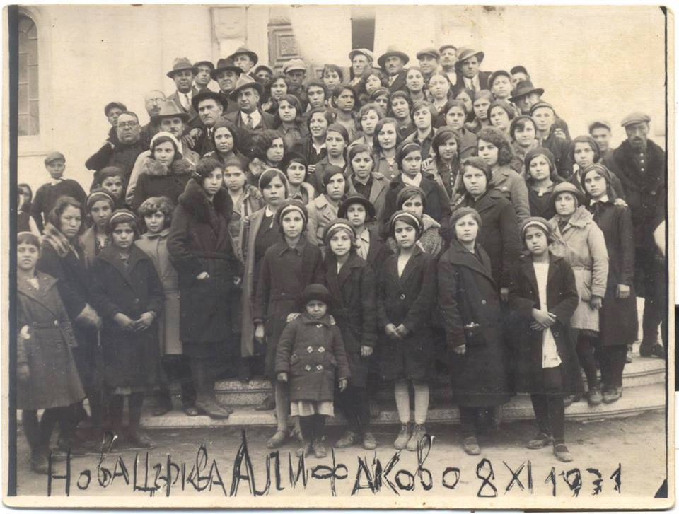 Guests of the consecration of the new Catholic church in Aliafakovo on November 8, 1931.